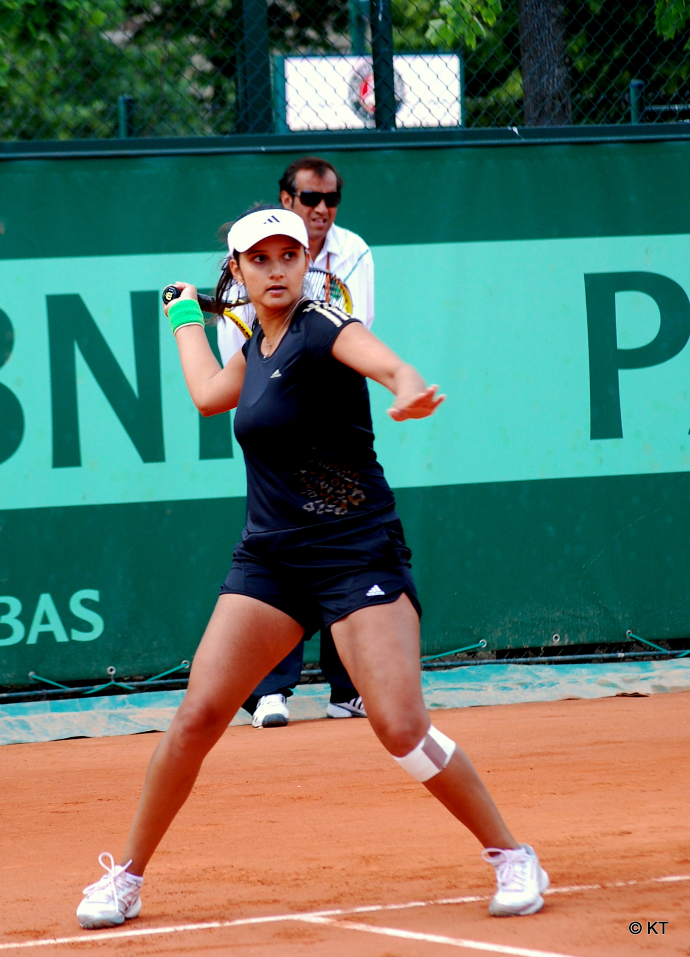 Sania Mirza on the practice court with doubles partner Elena Vesnina. Roland Garros 2011.